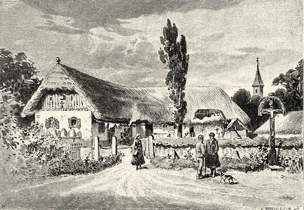 Slovenian houses in Hungary in the 19th century